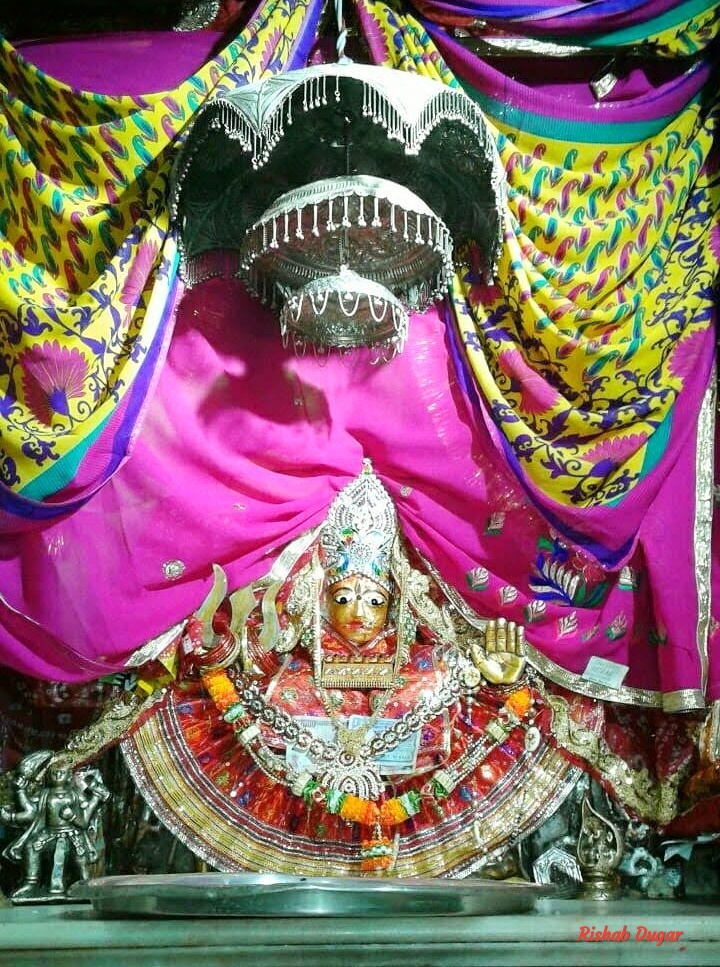 Jain Temple of Suswani Goddess